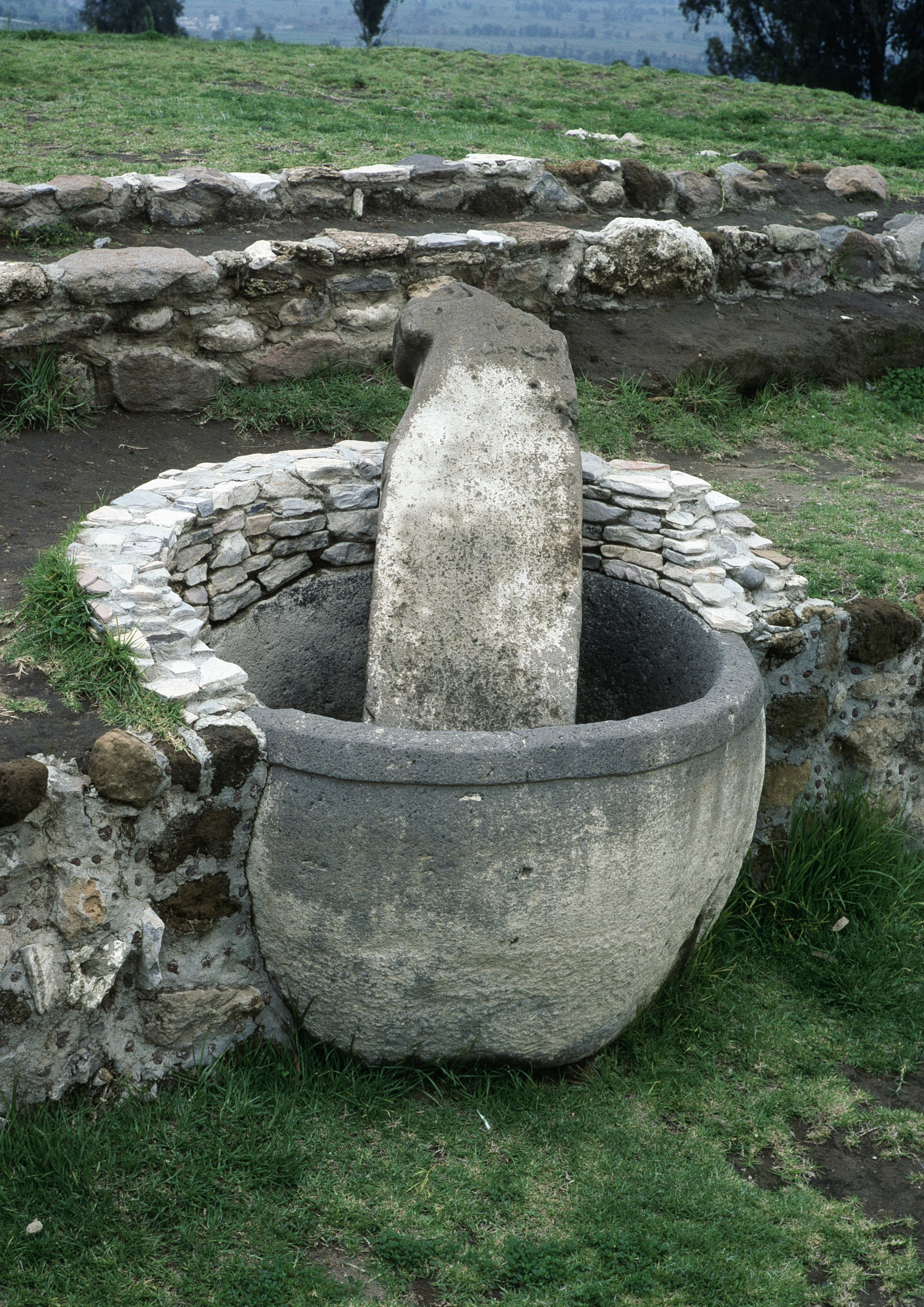 Xochitecatl, Tlaxcala, Mexico: stone basin